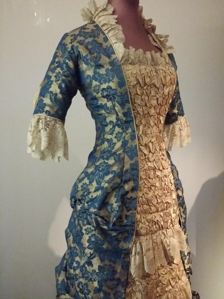 1878-1880 Princess line reception dress on display in the Victoria and Albert Museum